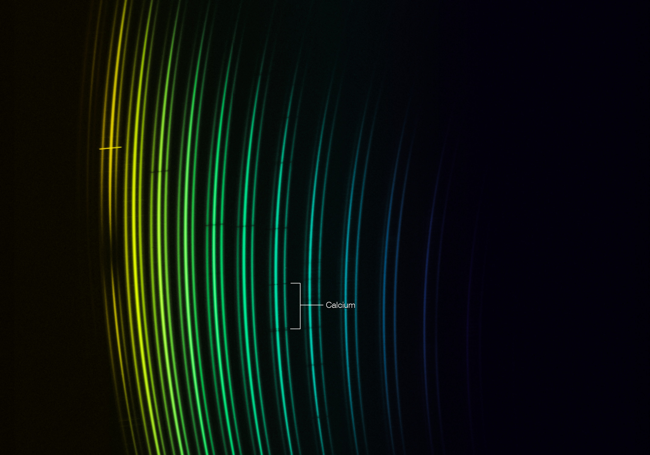 This picture shows the distribution of the light of different colours coming from the remarkable star SDSS J102915+172927 after it has been split up by the X-Shooter instrument on the ESO VLT.